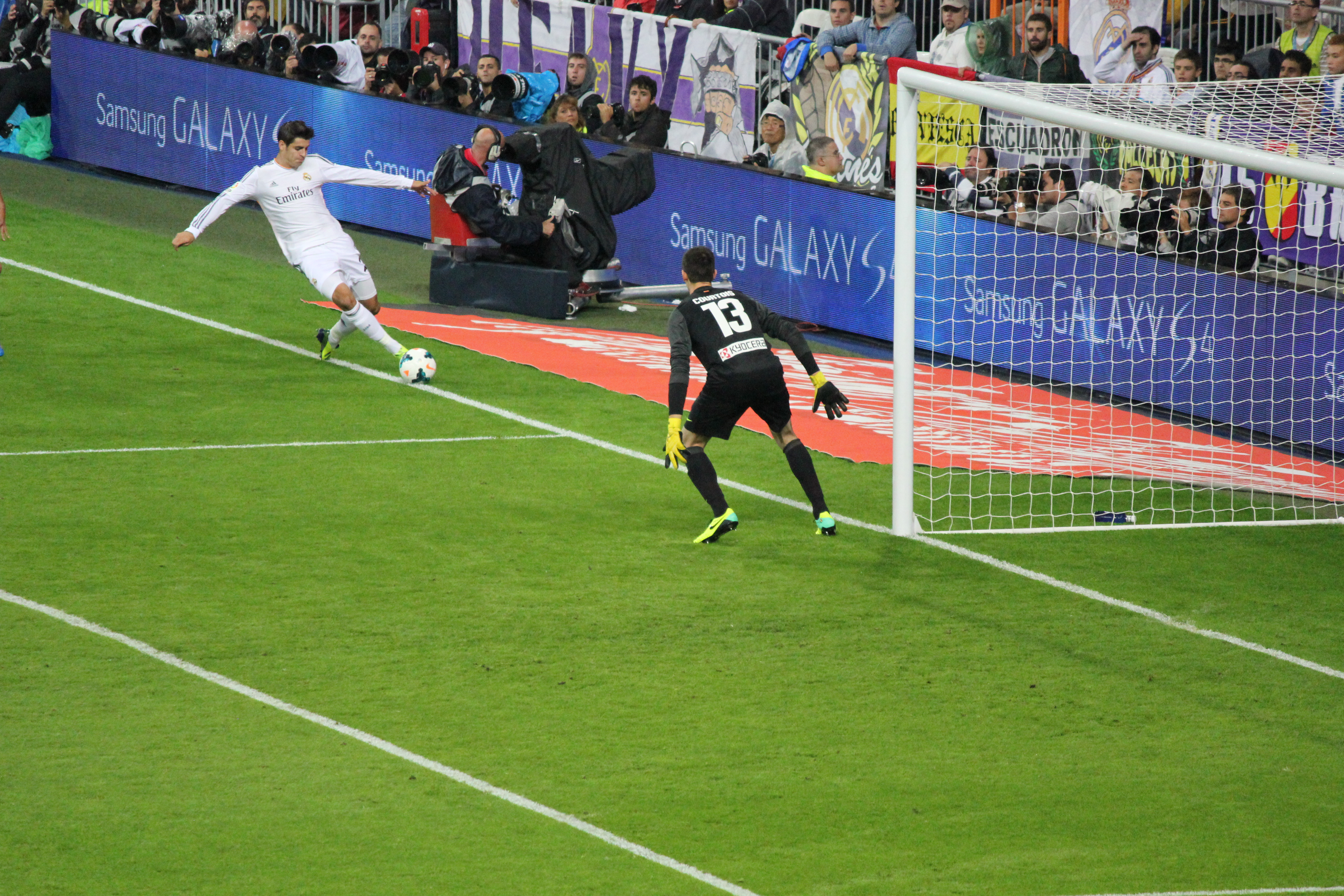 Real Madrid vs. Atlético Madrid 28 September 2013